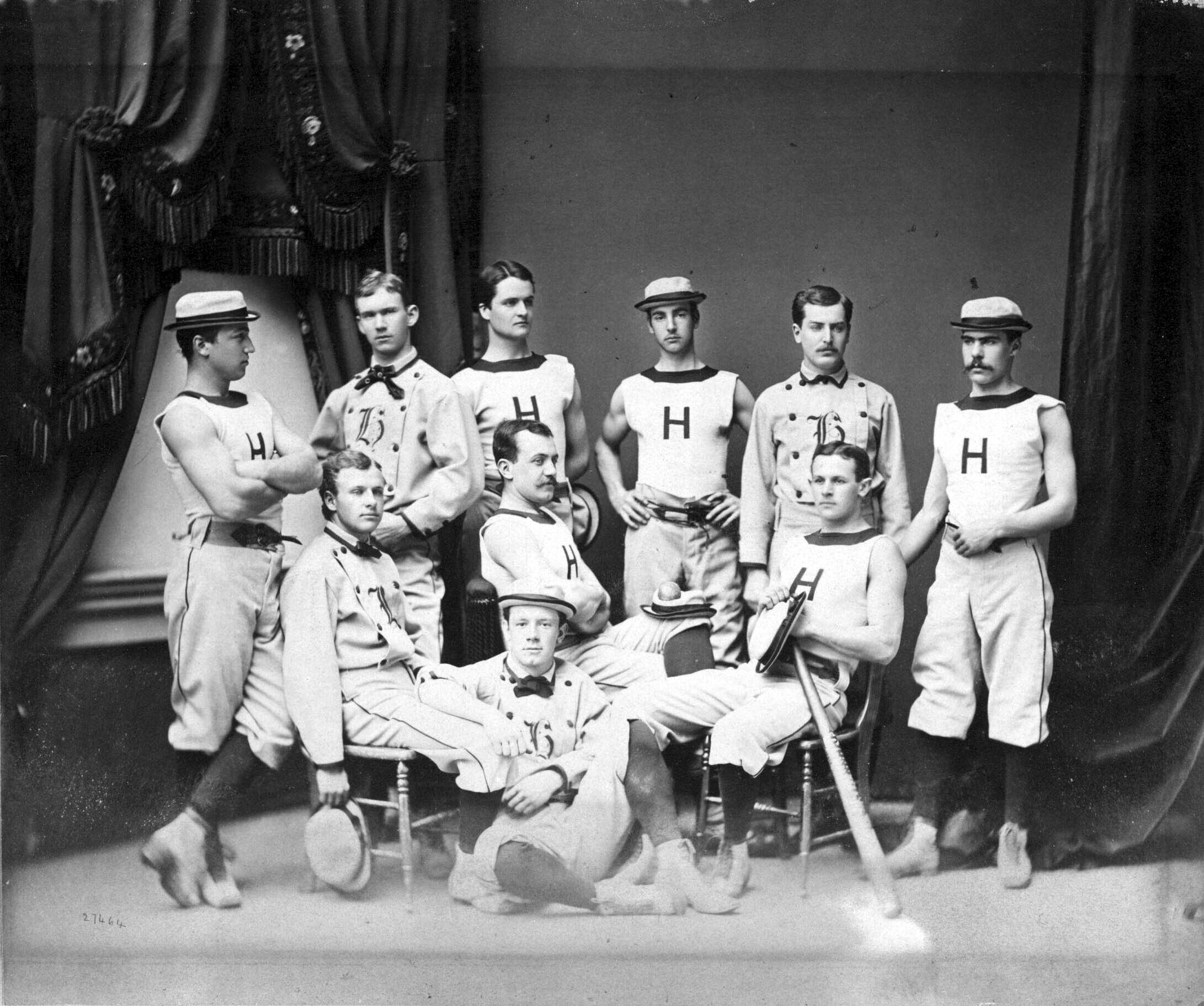 The Harvard University baseball team, circa 1877. Golf course architect Herbert C. Leeds (1855-1930) stands in the back row, far left. He graduated with the class of 1877.